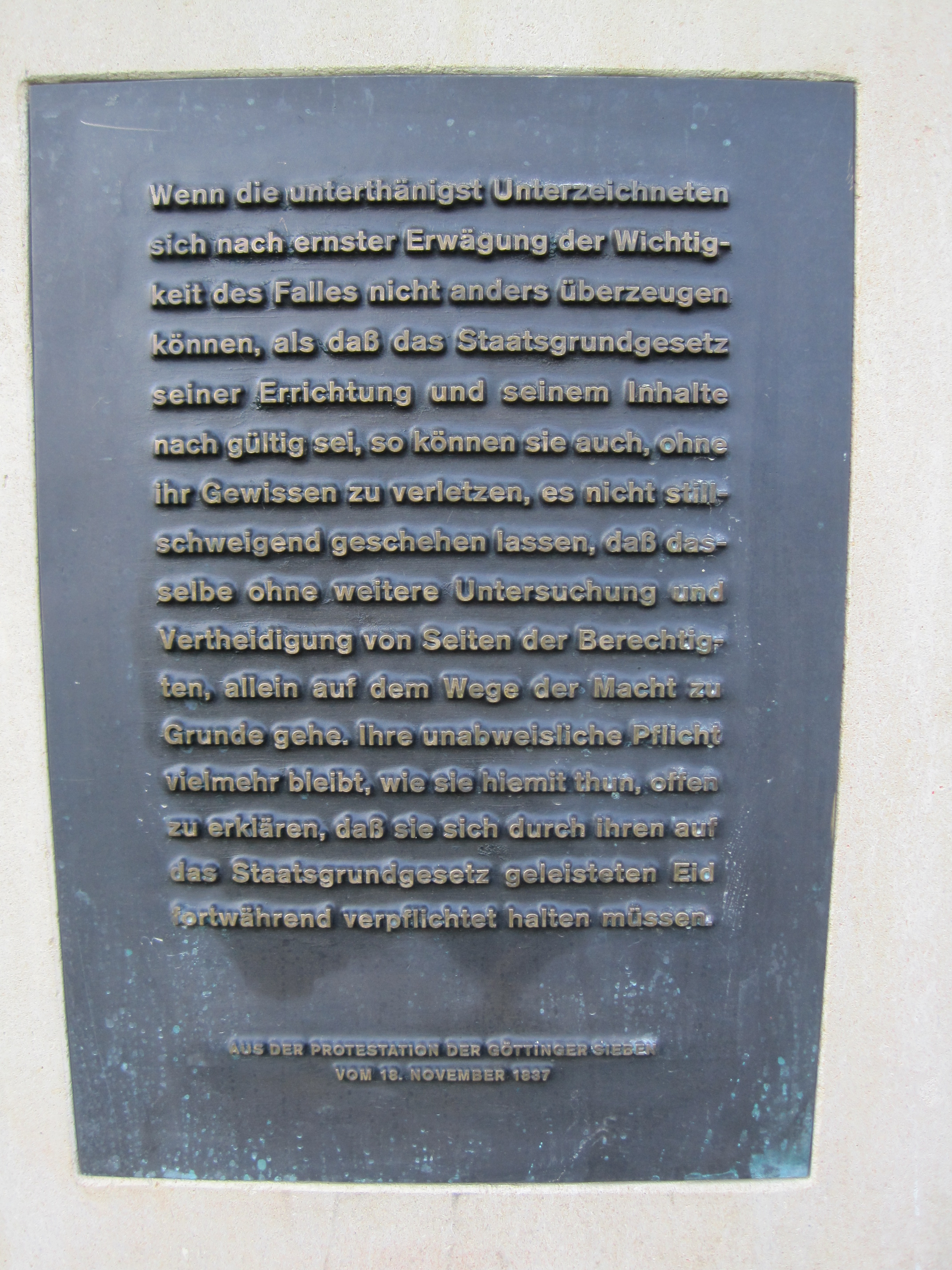 Sculpture (2011) by Günter Grass at Platz der Göttinger Sieben, Göttingen, Germany check usage